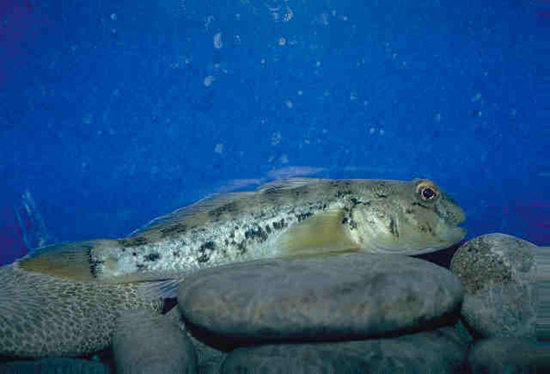 Picture of a Neogobius melanostomus (Round goby) on rocky bottom.